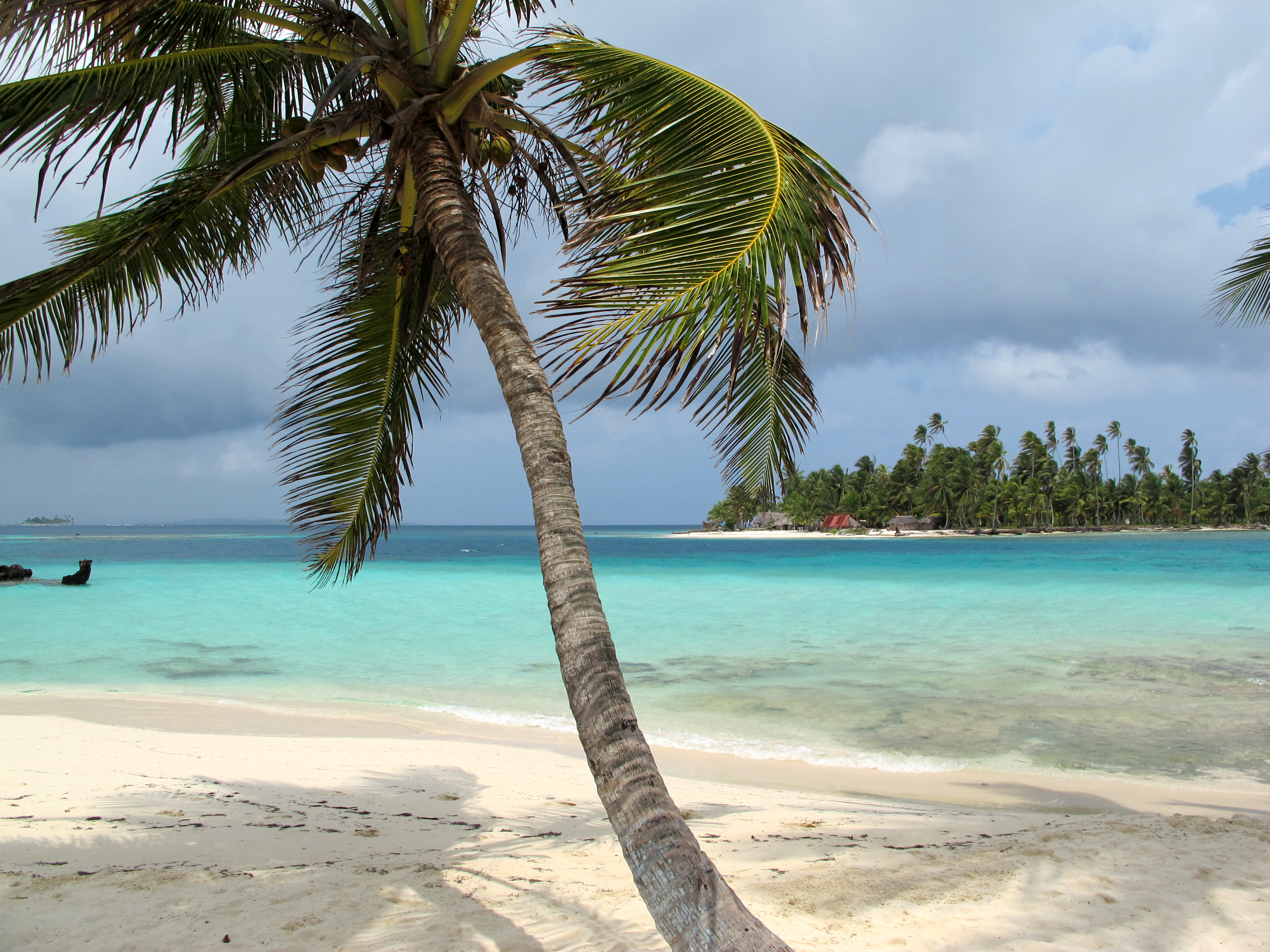 San Blas Islands, Panama